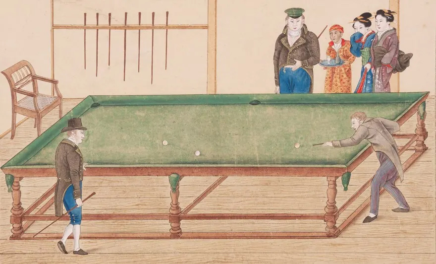 Scene of white people in service of the Dutch playing billard in Dejima, 19th century.